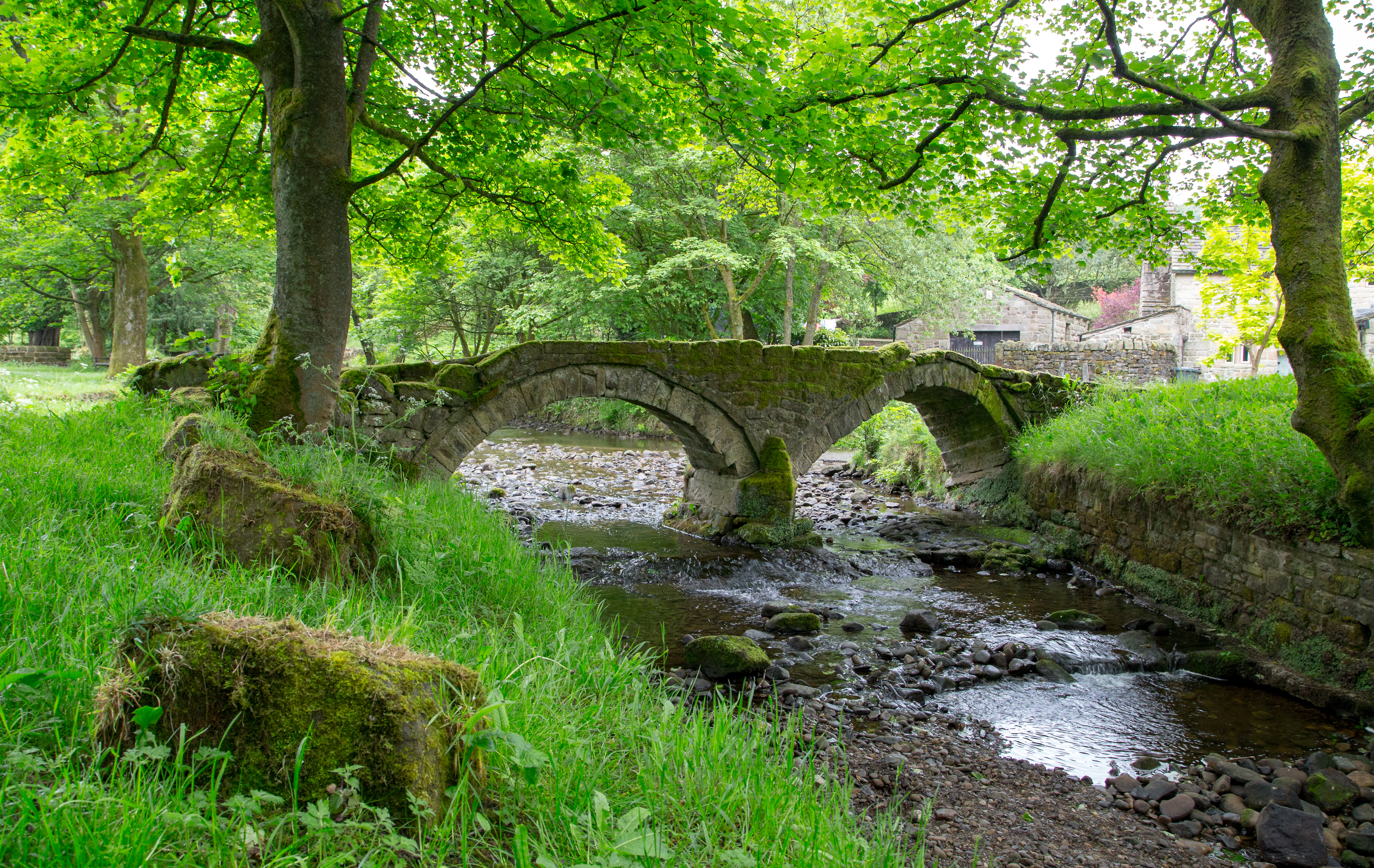 Wycoller packhorse bridge Wikidata has entry Q17640893 with data related to this item.